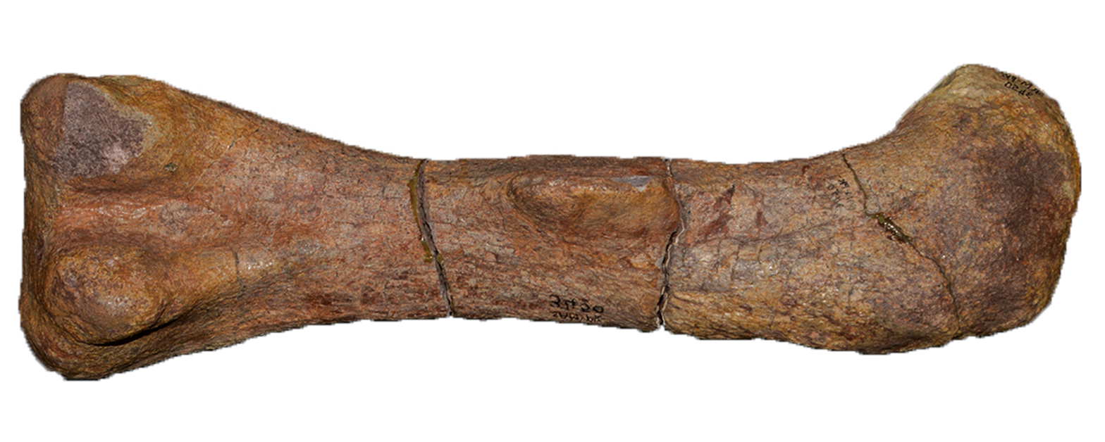 Left femur of Melanorosaurus readi SAM-PK-3450 (photo credit: C. Peyre de Fabrègues).